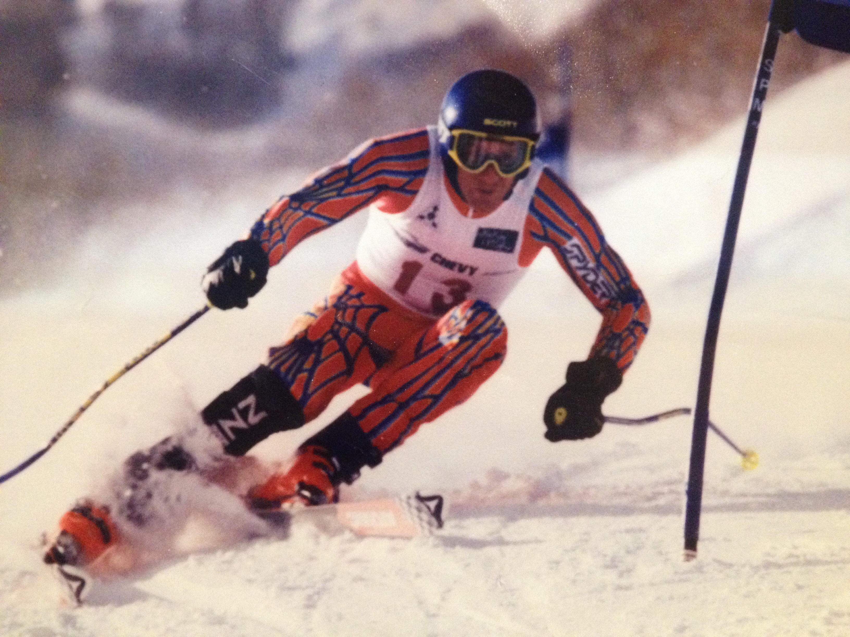 Skiing in a Giant Slalom